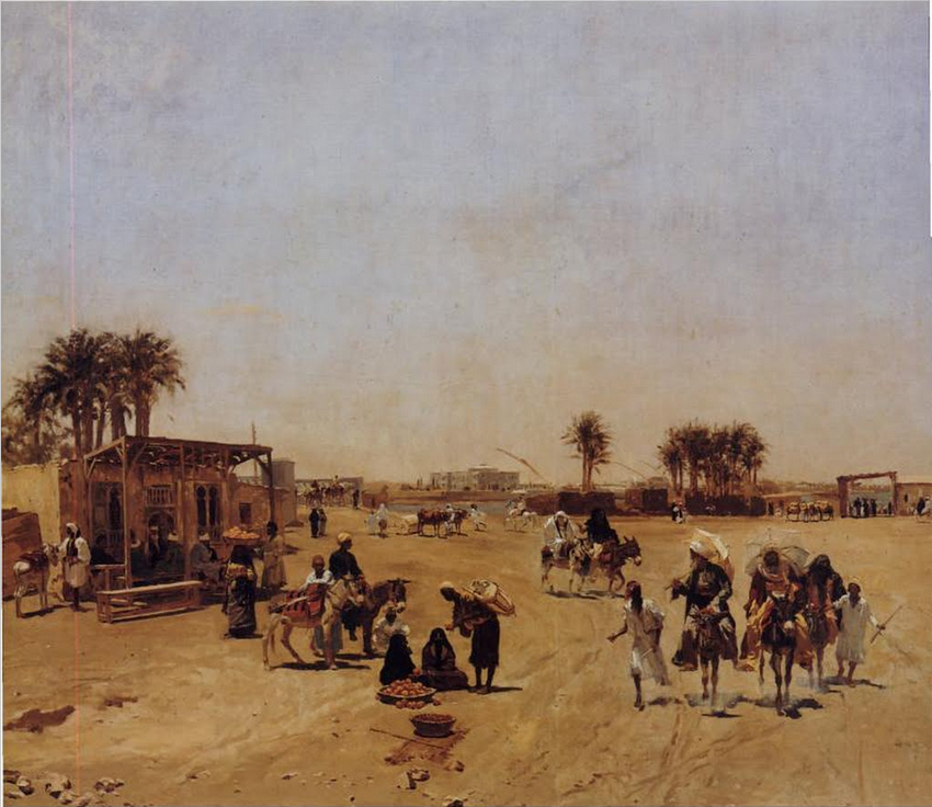 Study for Cairo and the Shores of the Nile, by Emile Wauters